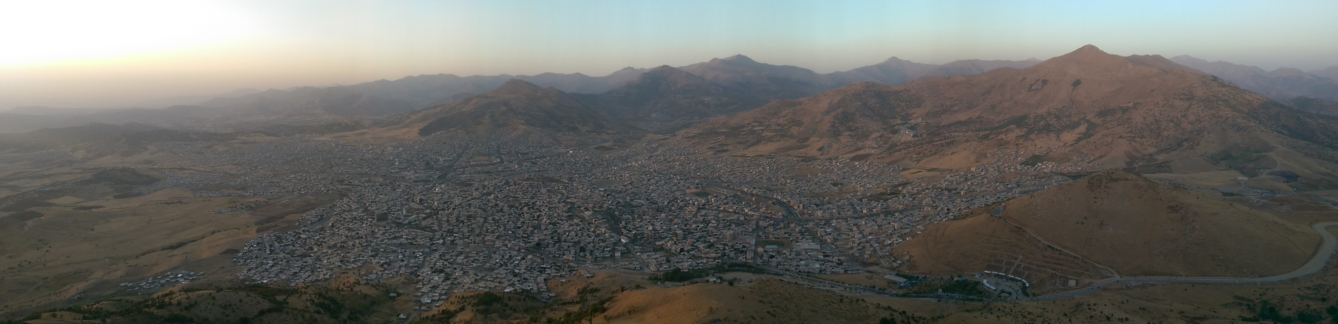 Baneh panorama from Arbaba